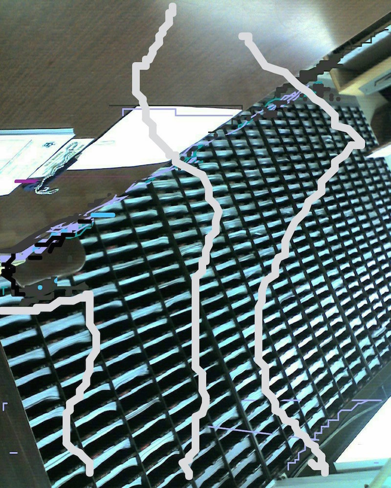 Palm Photograph, Albanyblugrid, 2016, Vibrachrome, 40" x 30". Photograph by Stephanie Bernheim